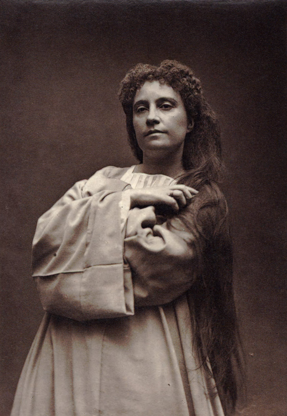 Caroline Carvalho as Margueurite in the opera Faust by Gounod.